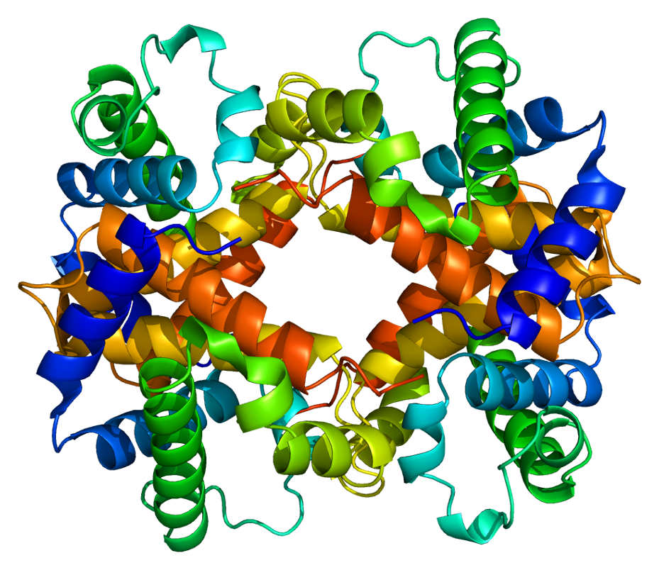 Structure of the HBA1 protein. Based on PyMOL rendering of PDB 1a00.